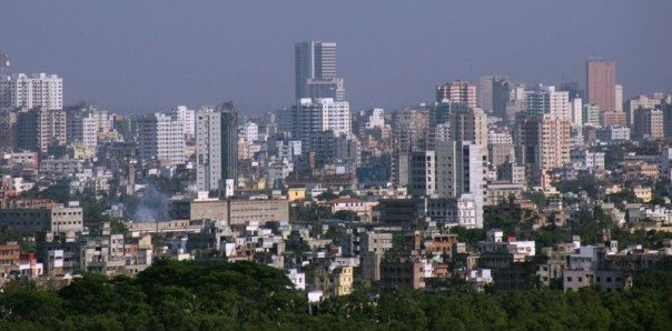 Skyline of Dhaka City